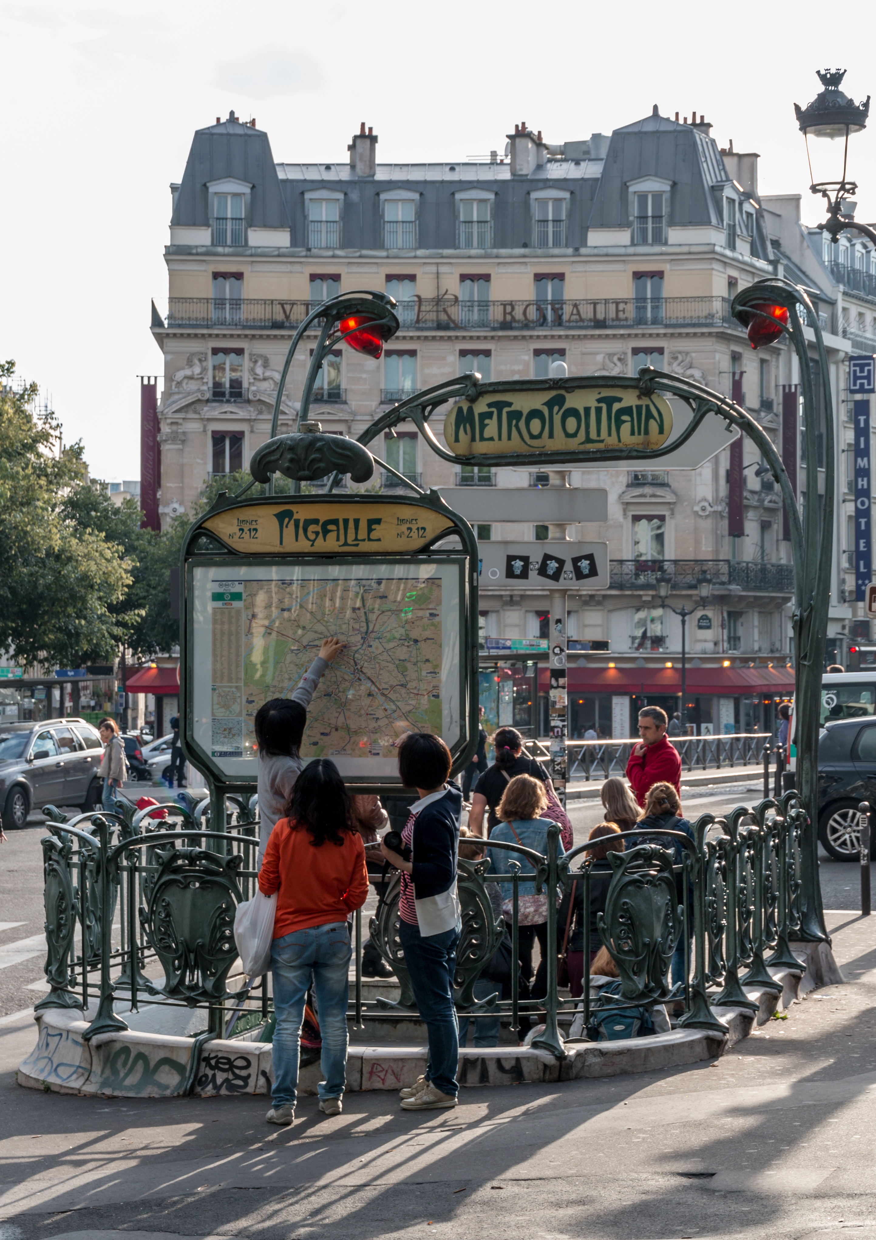 Metro station “Pigalle”, Paris, France .